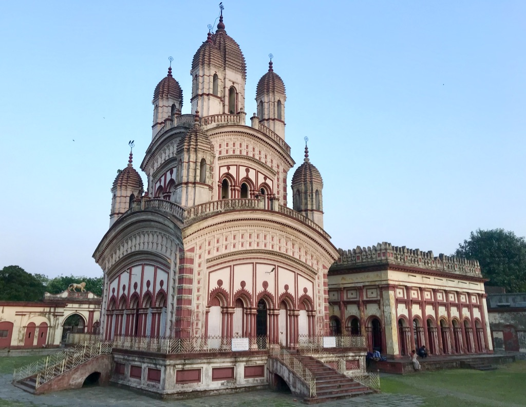 The famous Annapurna Temple of Barrackpore of North 24 Parganas district of West Bengal. It was built by the daughter of Rani Rashmoni. This temples resembles the famous Dakshineswar Temple.